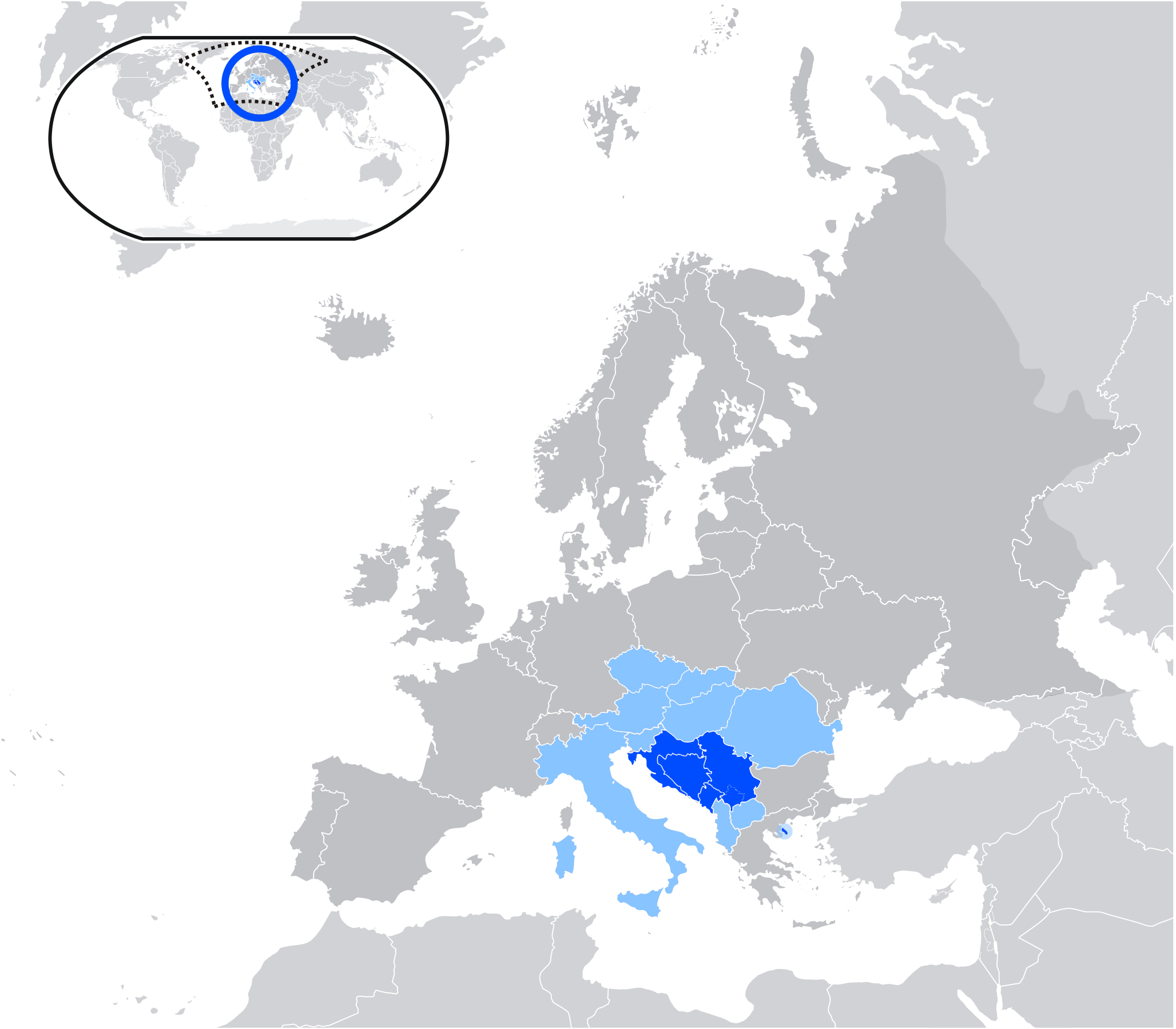 Official language Serbia (as Serbian) Croatia (as Croatian) Bosnia and Herzegovina (as Bosnian, Croatian, Serbian) Montenegro (as Montenegrin) Kosovo (as Serbian) Mount Athos (as Serbian) Recognised as minority language Austria (as Croatian) Hungary (as Serbian and Croatian) Italy (as Croatian) Romania (as Serbian and Croatian) Slovakia (as Serbian) Czech Republic (as Serbian) Macedonia (as Serbian) . Srpskohrvatski / српскохрватски: Službeni jezik Srbija (kao Srpski) Hrvatska (kao Hrvatski) Bosna i Hercegovina (kao Bosanski, Hrvatski, Srpski) Crna Gora (kao Crnogorski) Kosovo (kao Srpski) Sveta Gora (kao Srpski) Priznat manjinski jezik Austrija (kao Hrvatski) Mađarska (kao Srpski i Hrvatski jezik) Italija (kao Hrvatski) Rumunjska (kao Srpski i Hrvatski jezik) Slovačka (kao Srpski) Češka (kao Srpski) Makedonija (kao Srpski) .